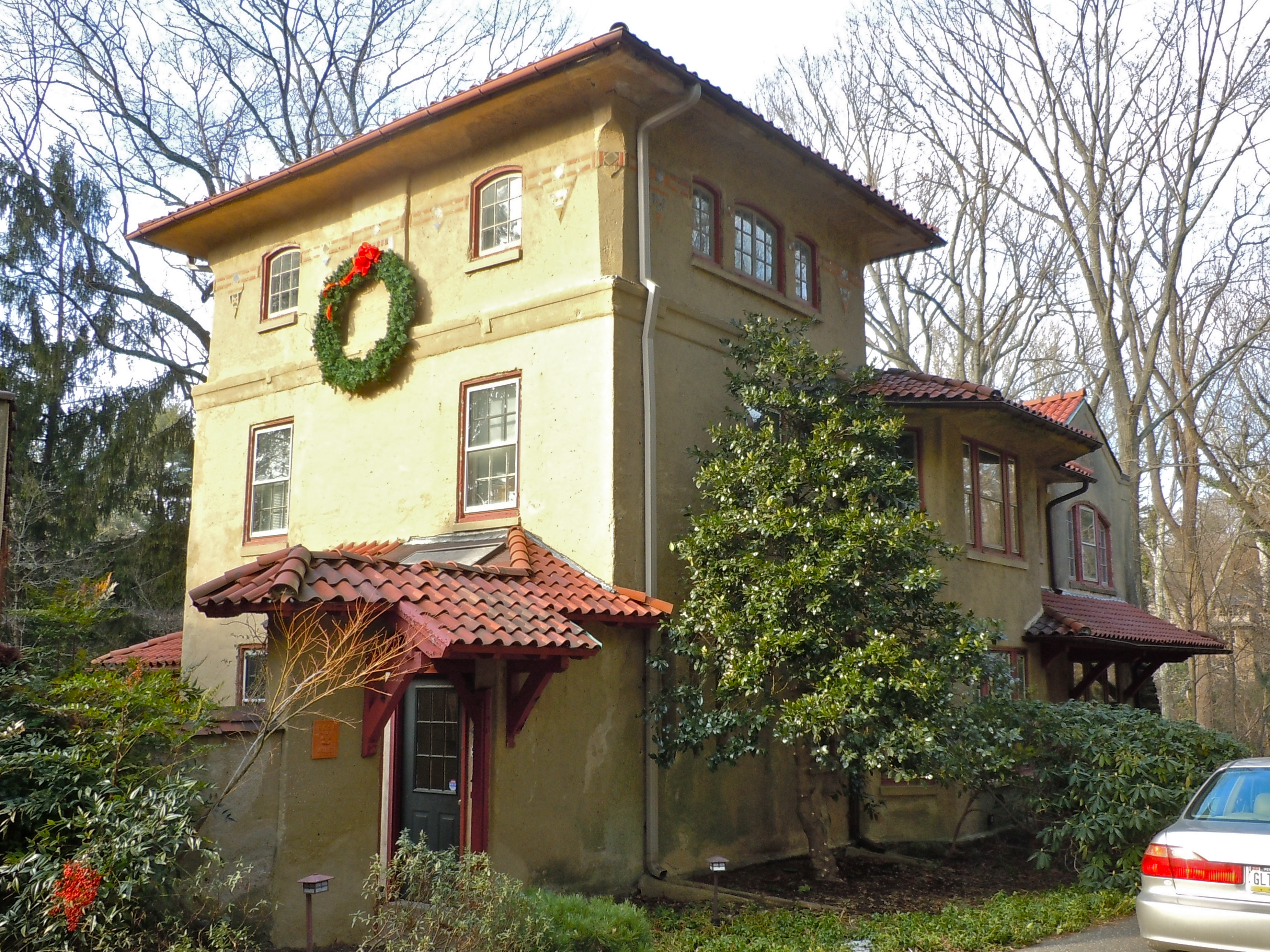 Rose Valley Improvement Company house in Rose Valley, Pennsylvania. Rose Valley is a NRHP Historic District, since 2010. The Improvement Company houses were designed by architect Will Price and all are on Porter Lane, off of Possum Hallow Road, in Rose Valley, near coords 39.897465,-75.384665. This house is at the very end of the lane.